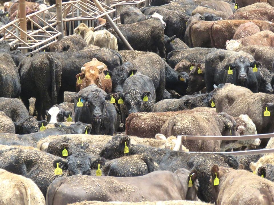 Cows that arrived in live export from Australia, are in Zofar quarantine before being sent to feedlots and abattoirs.